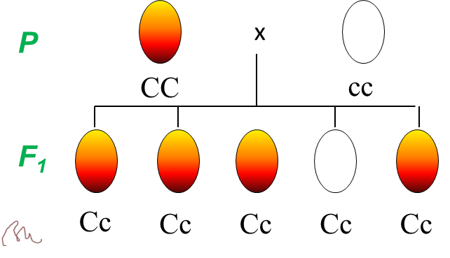 Penetrance in genetics.